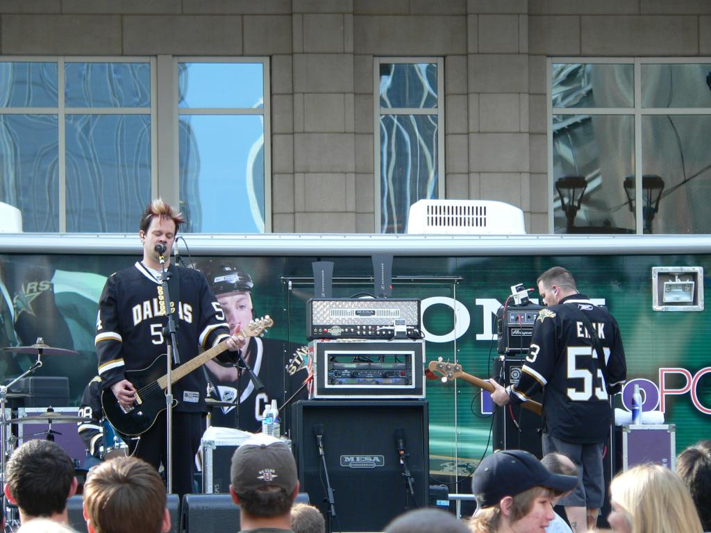 Bowling For Soup plays live before Stanley Cup playoff in Dallas, TX outside of American Airlines Center